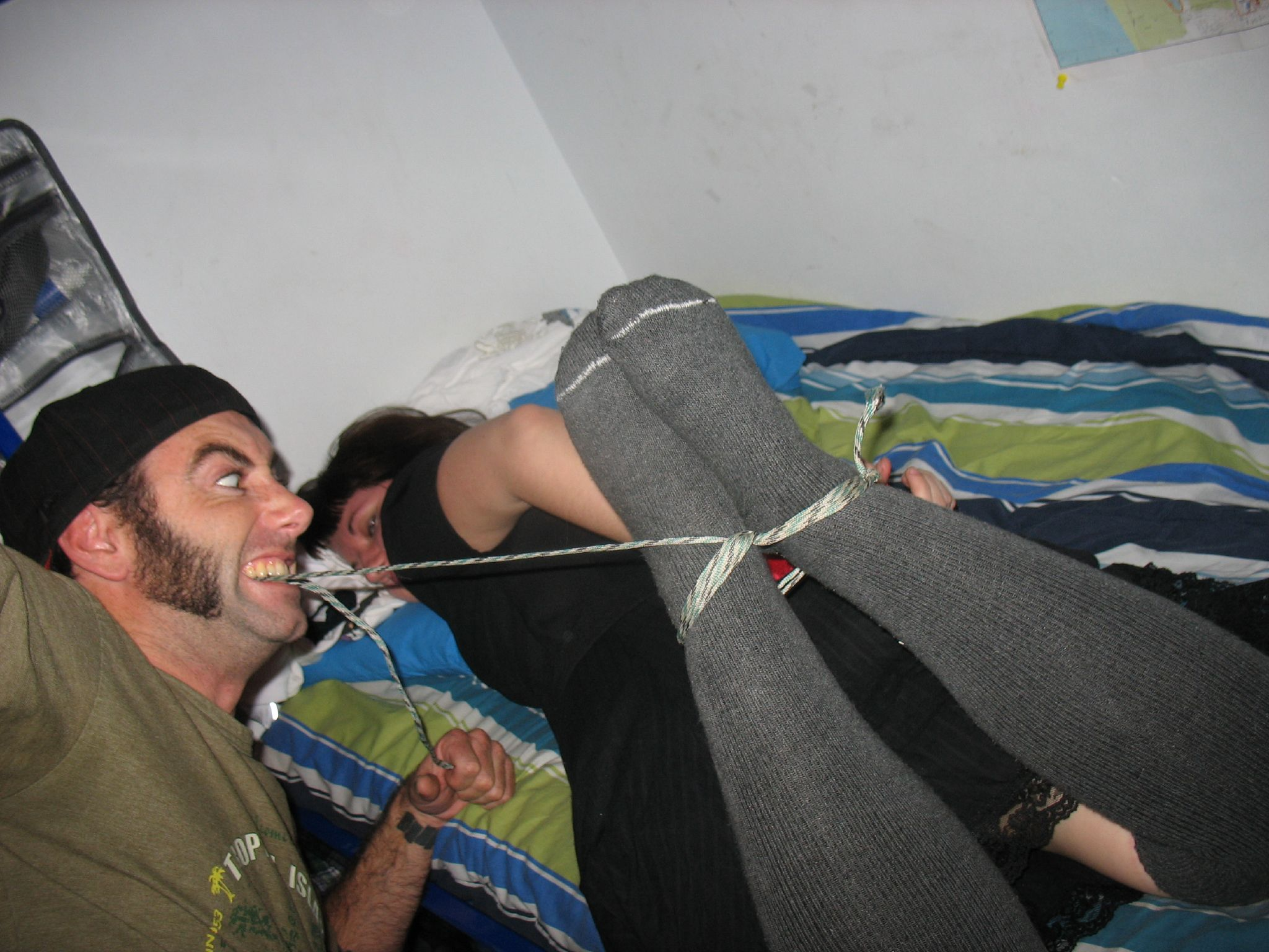 This sure is a popular picture; I wonder why.